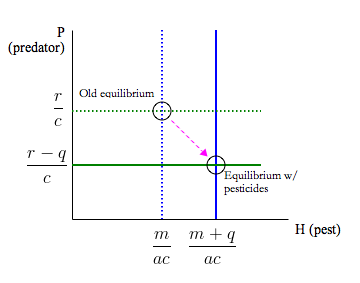 Predator-prey isoclines, with and without pesticides. Source: user IRok2ChopinNBach